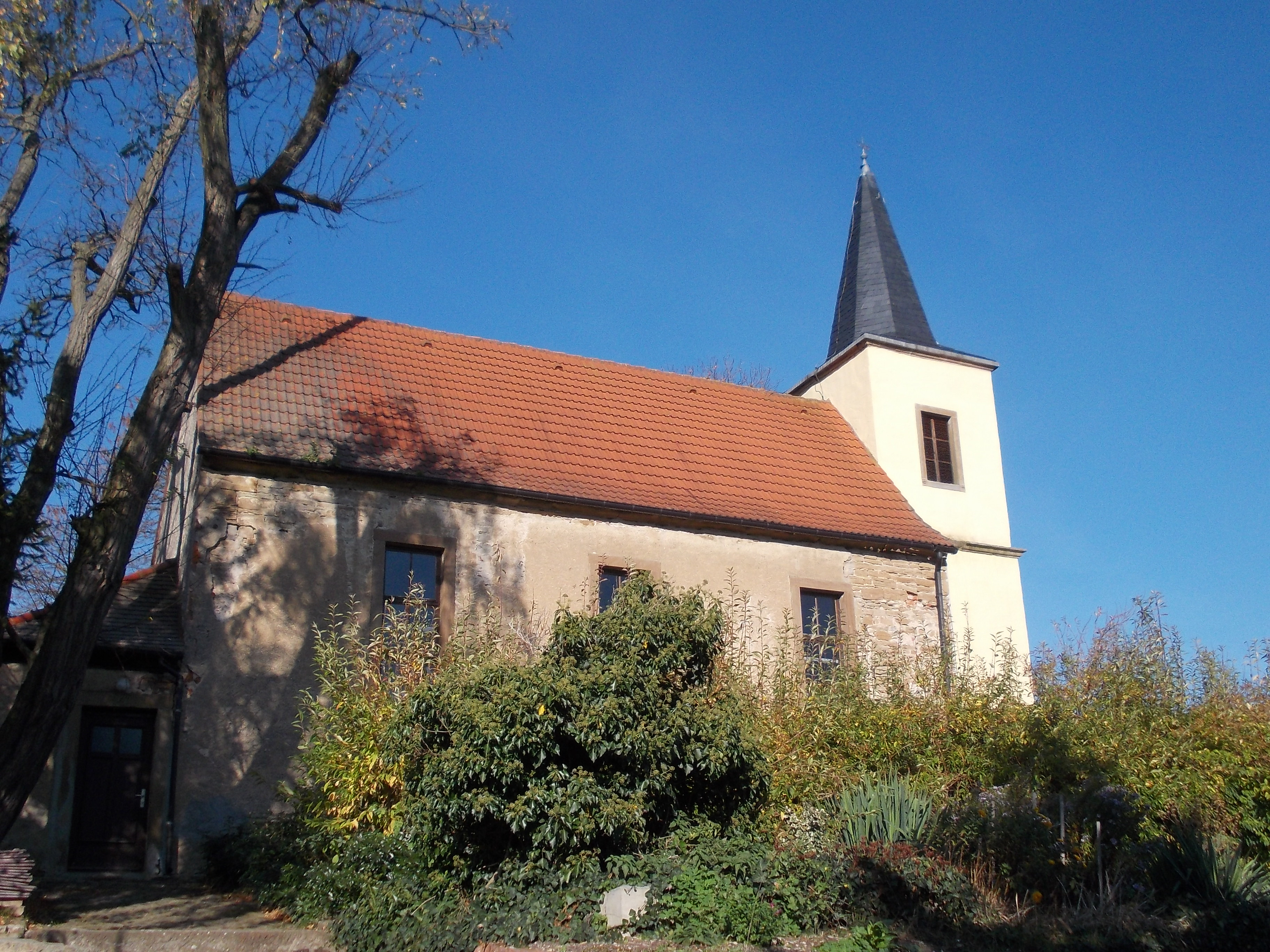 Döschwitz church (Kretzschau, district: Burgenlandkreis, Saxony-Anhalt)